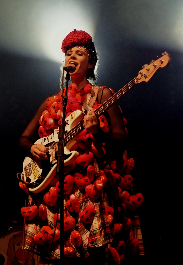 Kate Nash performing at Manchester Pride on Sunday 25th August 2013